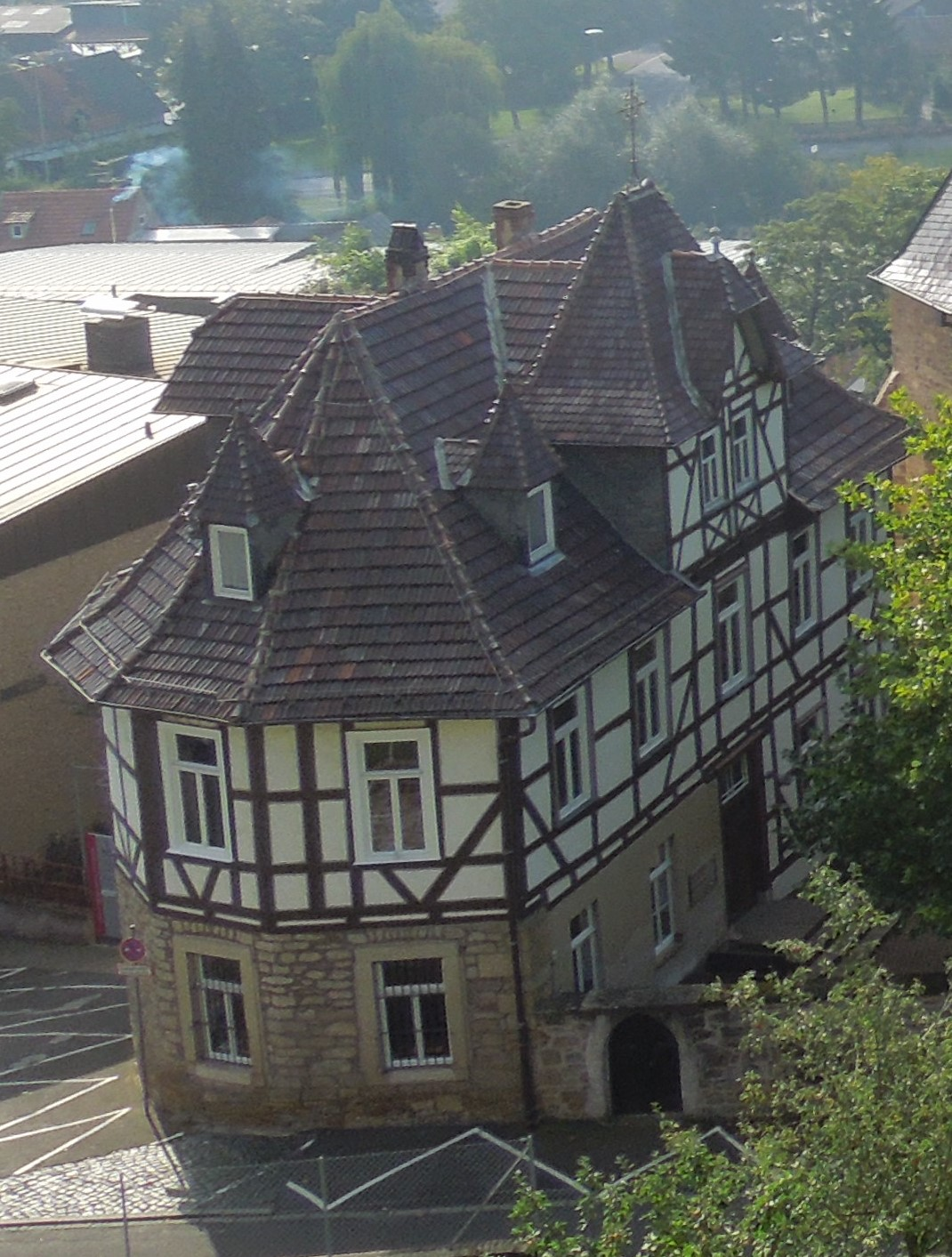 Fritzlar: original school building of the Ursuline nuns